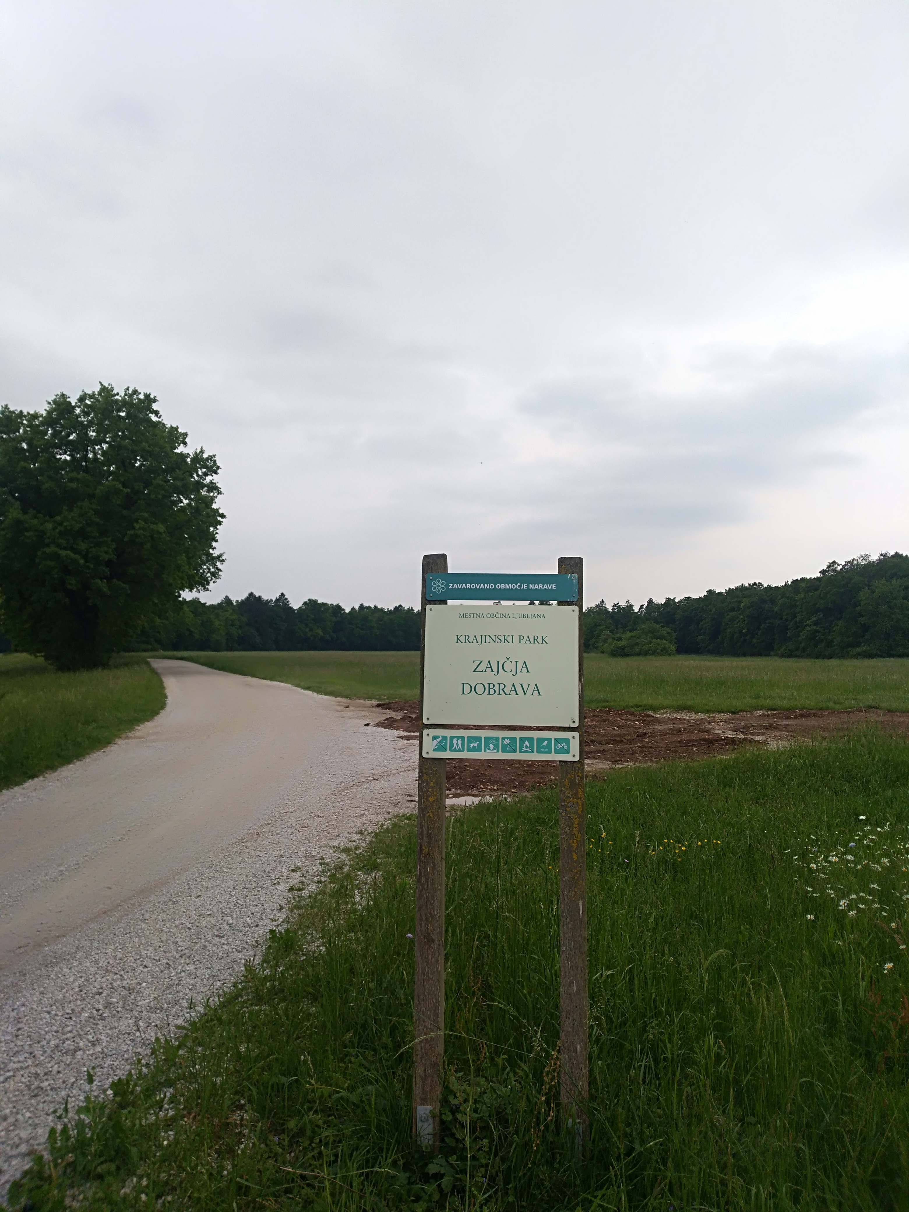 One of the entrances to Zajčja dobrava between Novo Polje, Zadobrova, Zalog and railway on south.